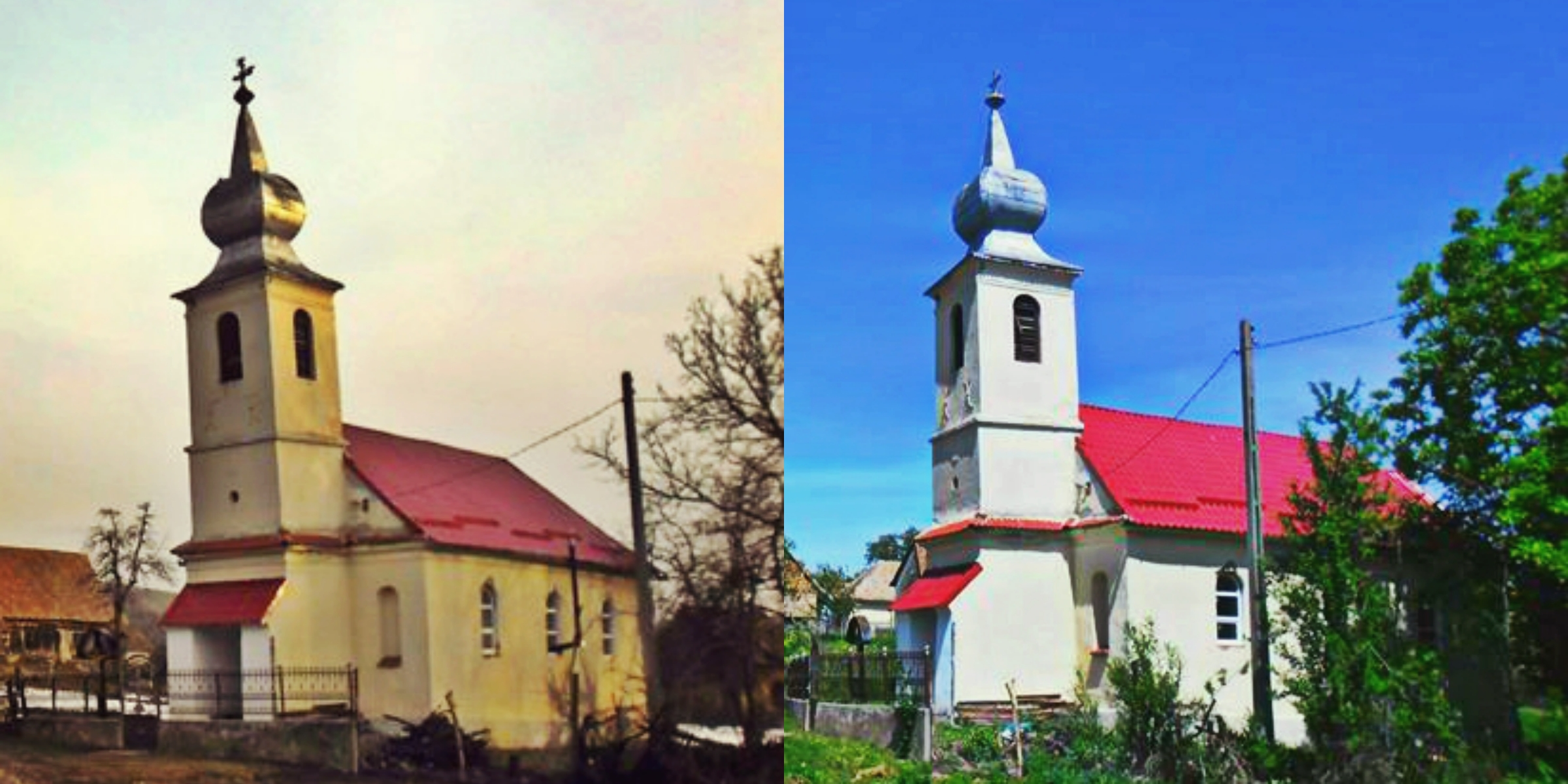 Romanian Orthodox church in DaiaRomână: Biserica ortodoxă din satul Daia, comuna Bahnea, judeţul Mureş